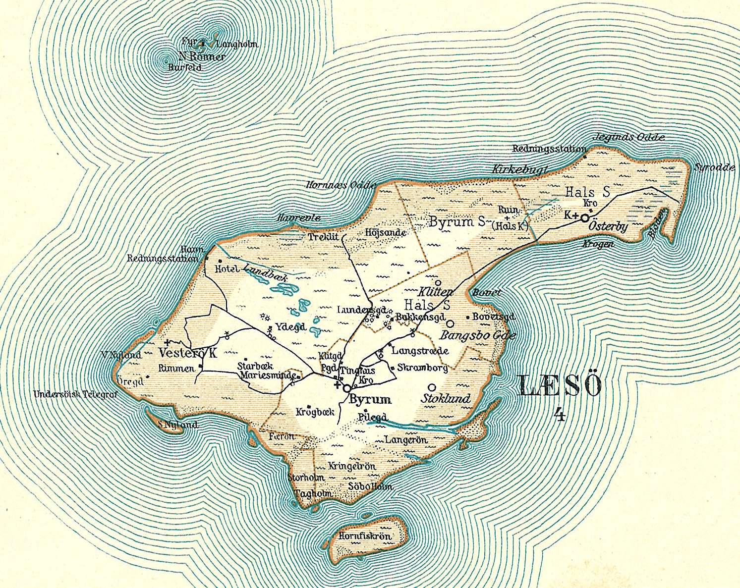 Map of Læsø in Denmark round year 1900